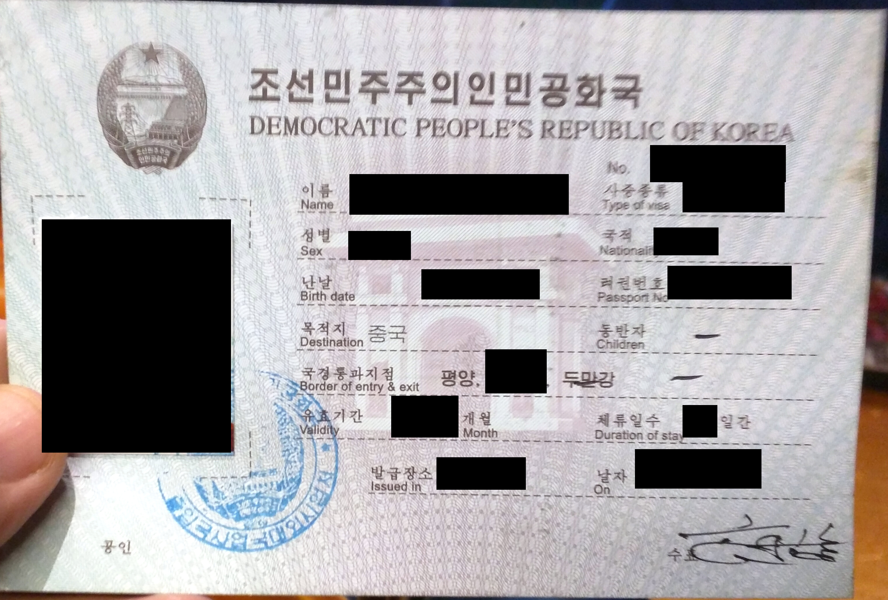 North Korean working visa issued in 2015